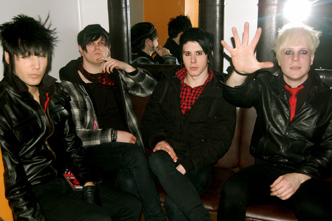 Taken at The Park Peterborough 14/2/09 Laurence Rene :: Jonathan Gaskin :: Simon Rowlands :: John Be